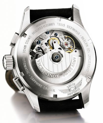 Victorinox automatic Watch